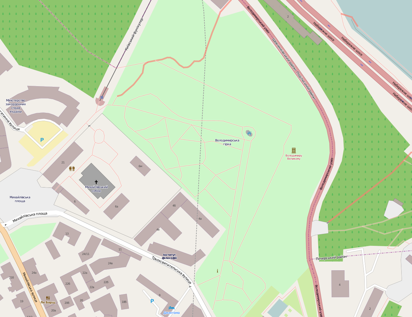 Location of the park in Kiev